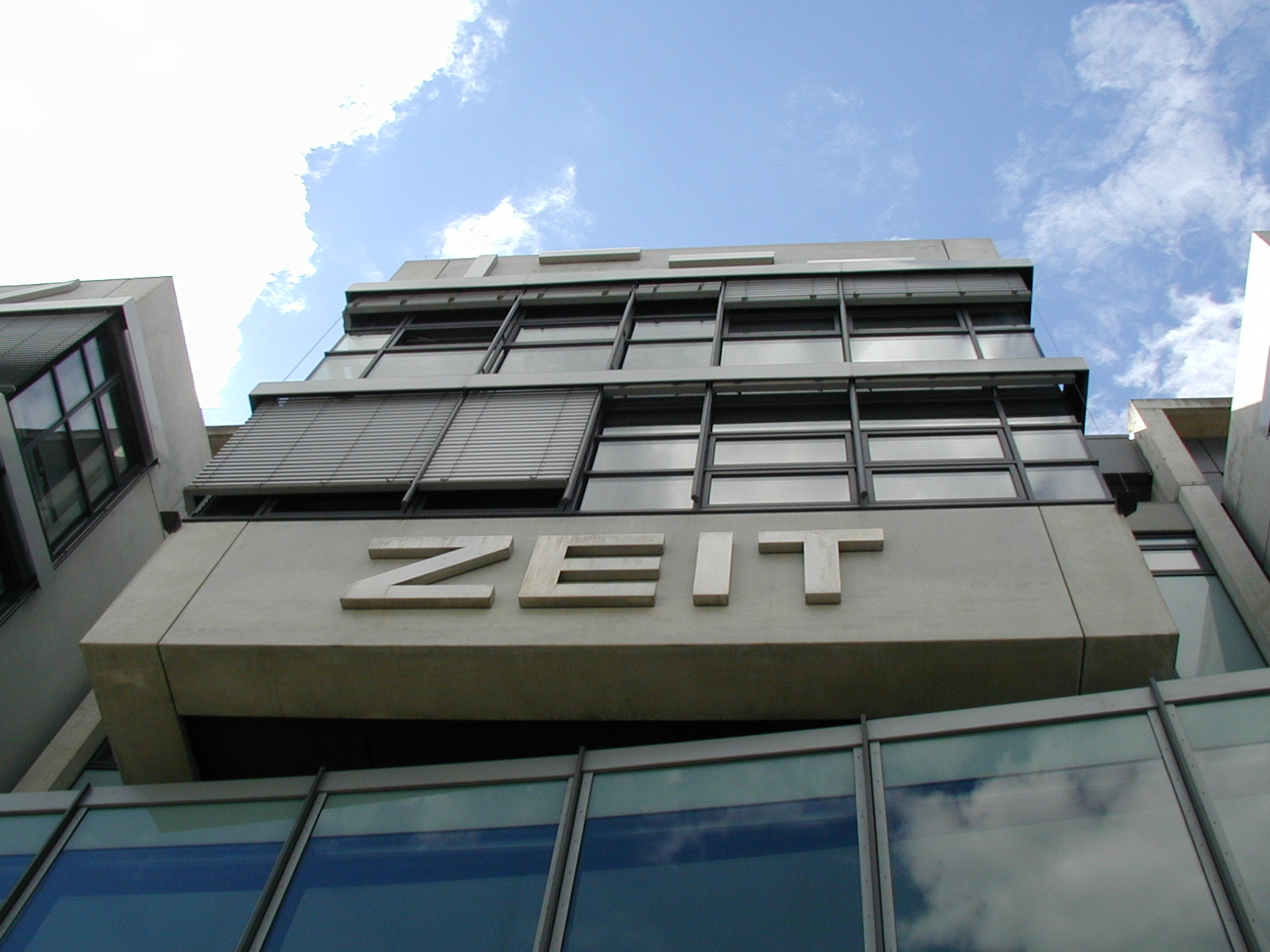 Upward view of the front of the additional building (1994) of Graz University Library. Picture taken and uploaded by Dr. Marcus Gossler.